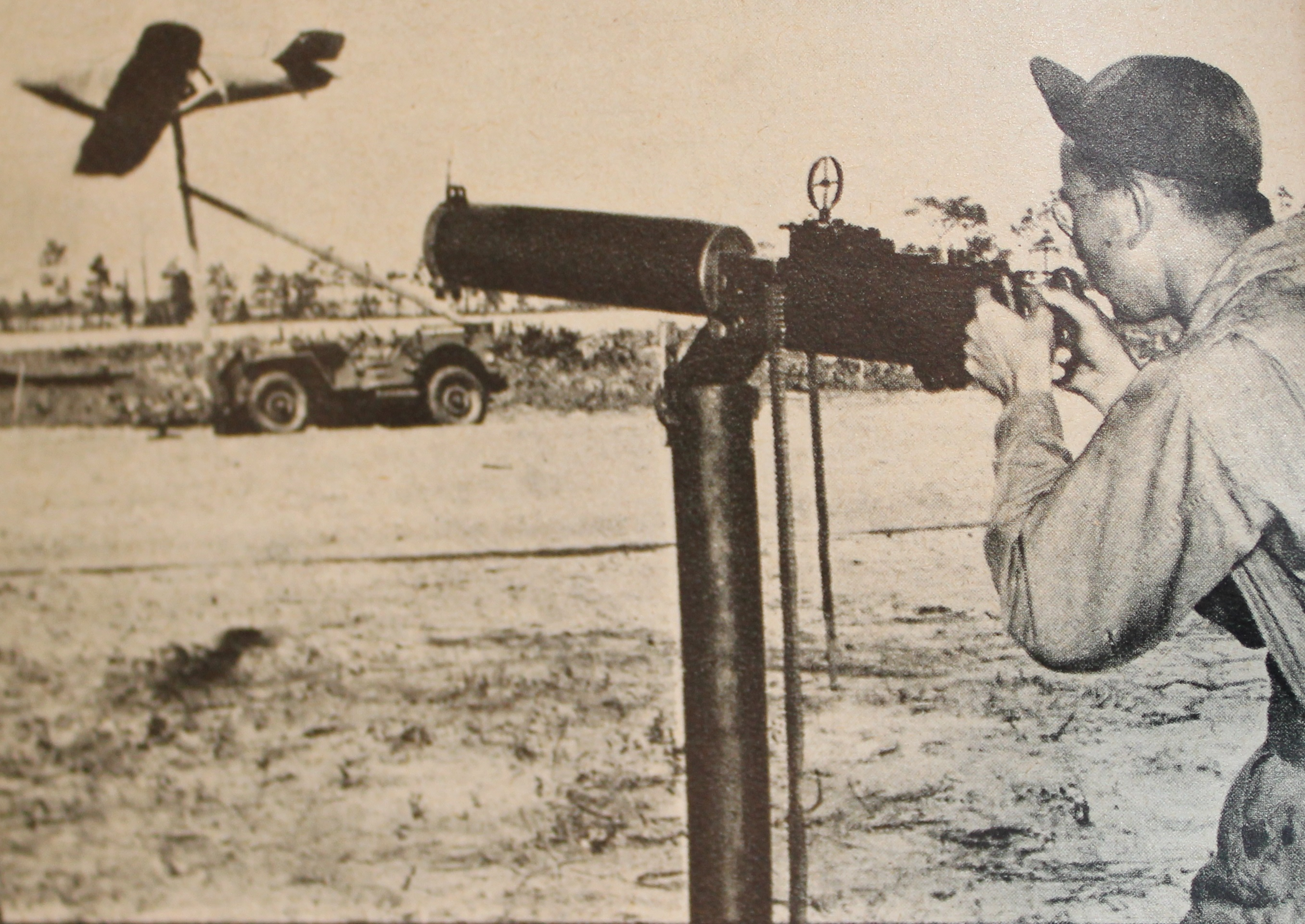 Aircraft mounted on unmanned jeep fired on by Army Air Forces gunnery trainee.